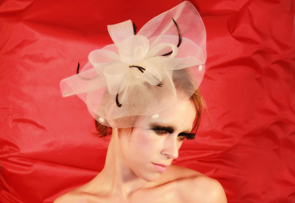 Sesion Autoretratos 2013